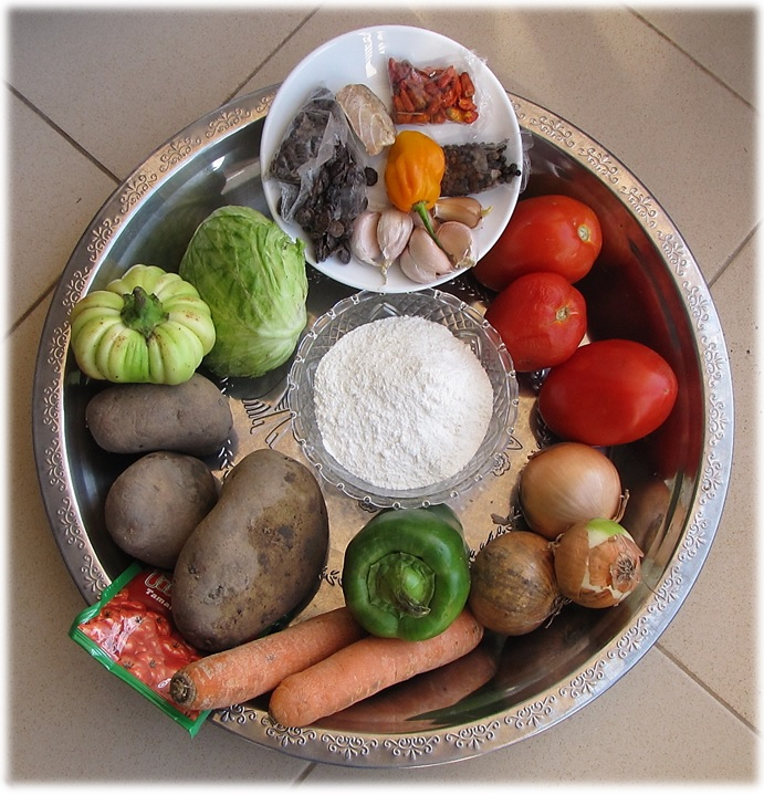 Popular Senegalese meat and vegetable sauce. Fresh vegetable ingredients. Carrots,potatoes,onions, diakhato/jaxatu (African eggplant - Solanum aethiopicum),cabbage,tomatoes,green bell pepper, tomato paste, flour, garlic, nététou (fermented African locust bean), guedj (cured fish chunk), pepper, dried capsicum and black pepper. (Diakhato is spelled according to the French alphabet, the same word jaxatu is spelled according to official Senegalese alphabet.